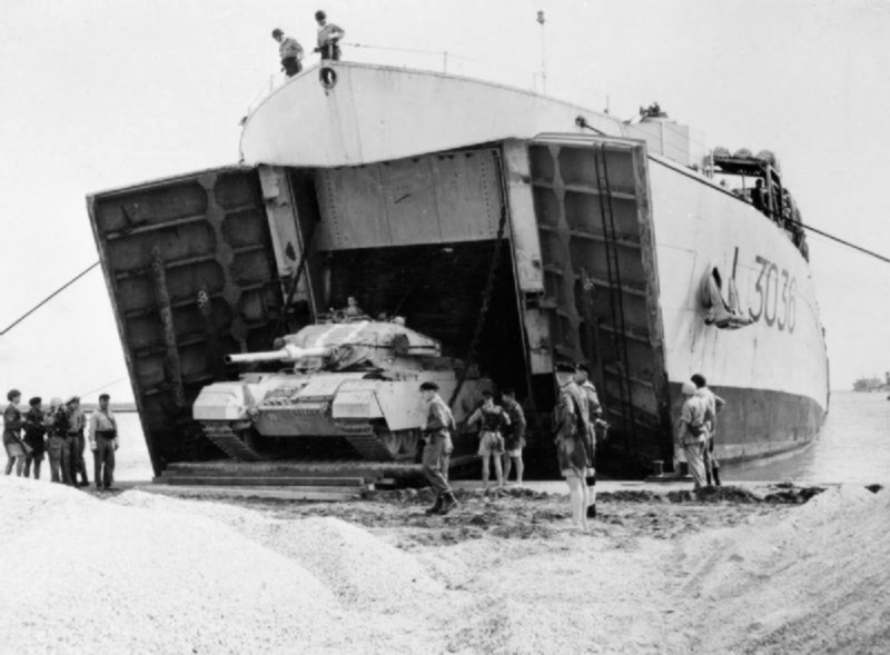 A British Centurion tank of the 6th Royal Tank Regiment disembarks from the tank landing ship HMS Puncher (L3036) at Port Said.